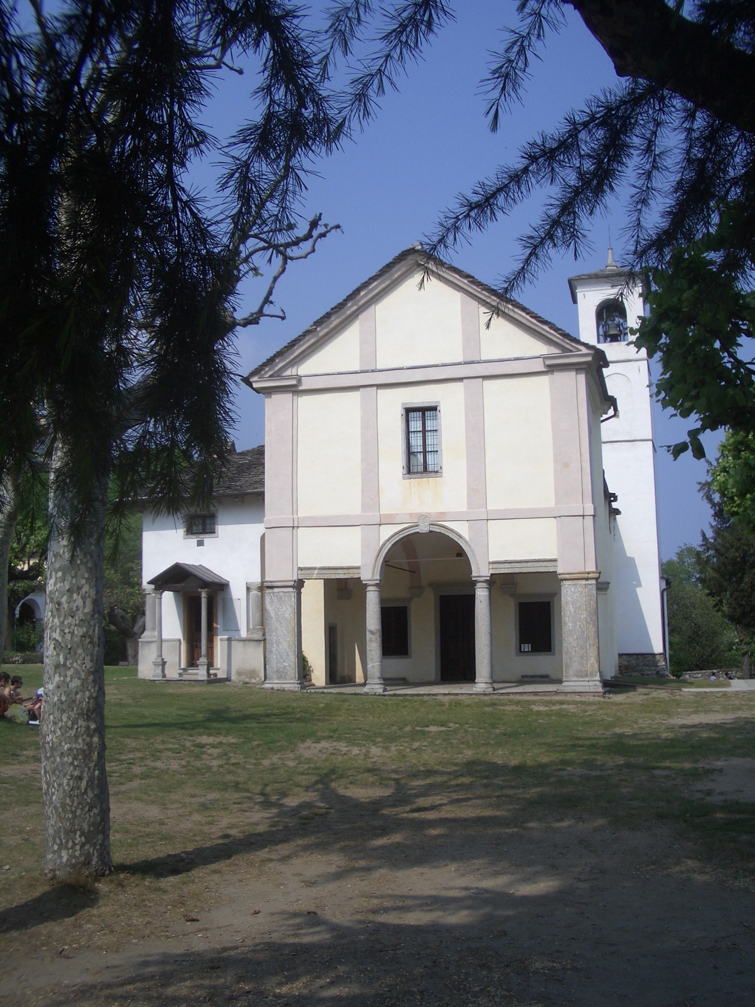 Sacro Monte di Ghiffa, (Verbania), Italy, The Trinity Sanctuary